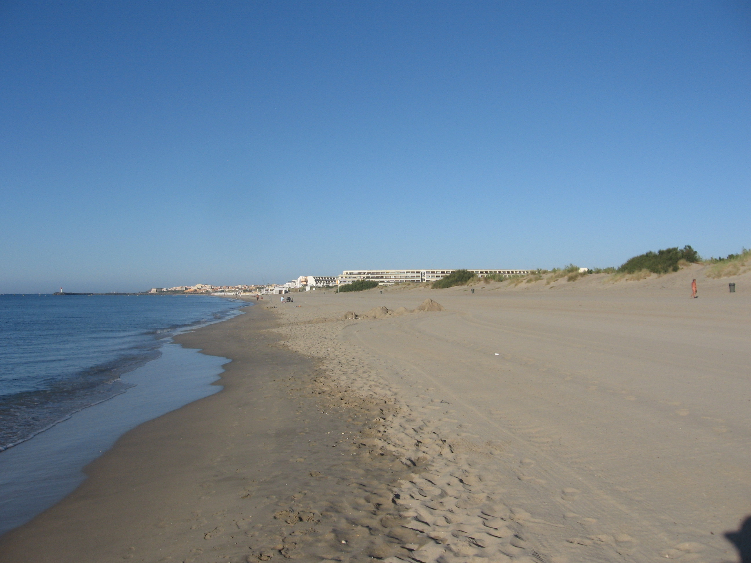 Beach at Village Naturiste in Cap d'Agde, France. In the morning without visitors.